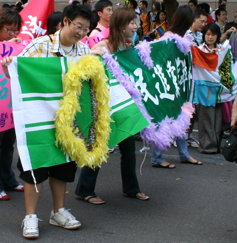 The Department of Ethnic Affairs of Democratic Progressive Party (DPP), the then-governing political party of Taiwan, on Taiwan Pride 2005.